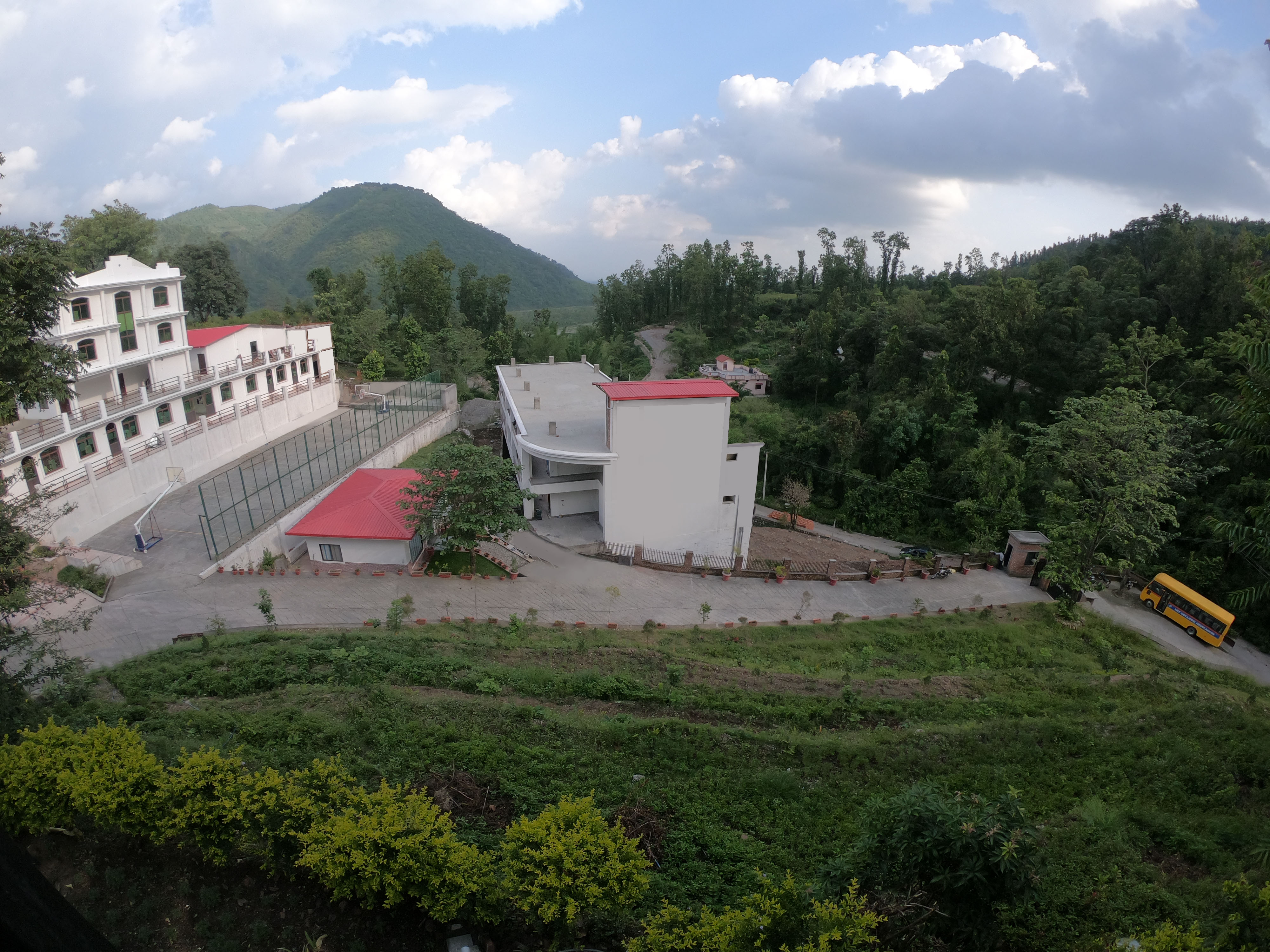 DCIM\100GOPRO\GOPR3347.JPG